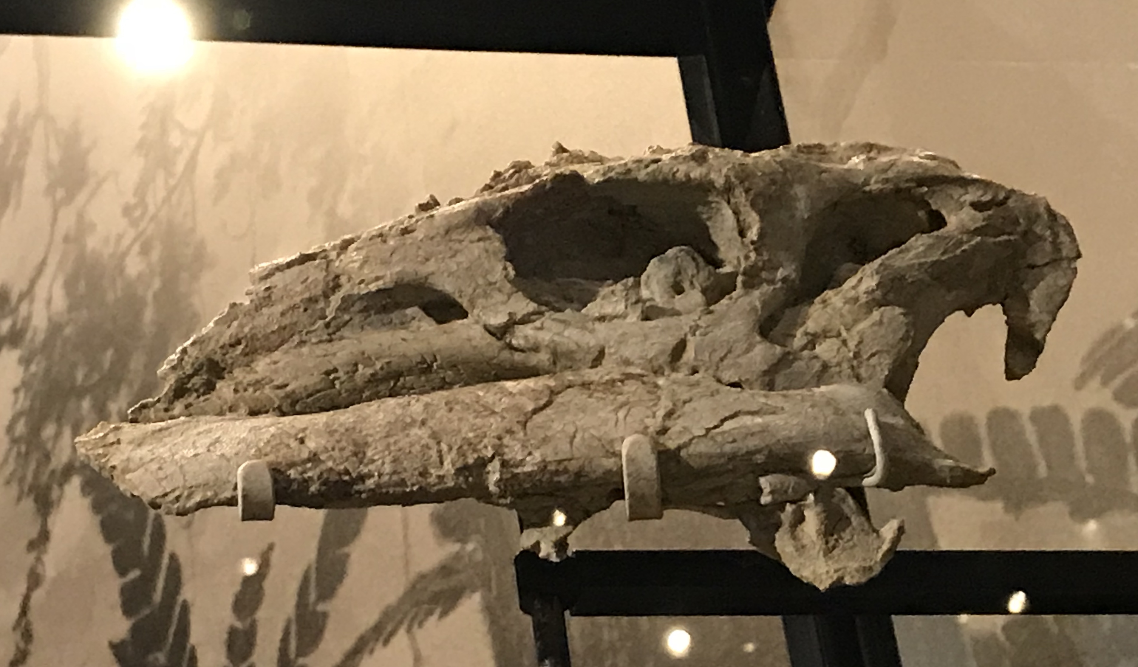 Hippodraco holotype